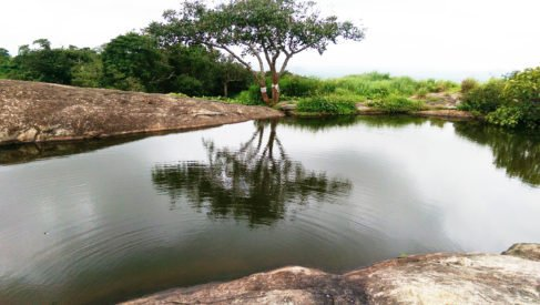 ADO-AWAYE TOWN is Surrounded by mountain and is home to one of the two suspended lake in the world.A Suspended lake is a lake at the top of mountain.This unforgettable place is better experience than told ,because it is indeed a mysterious lake.